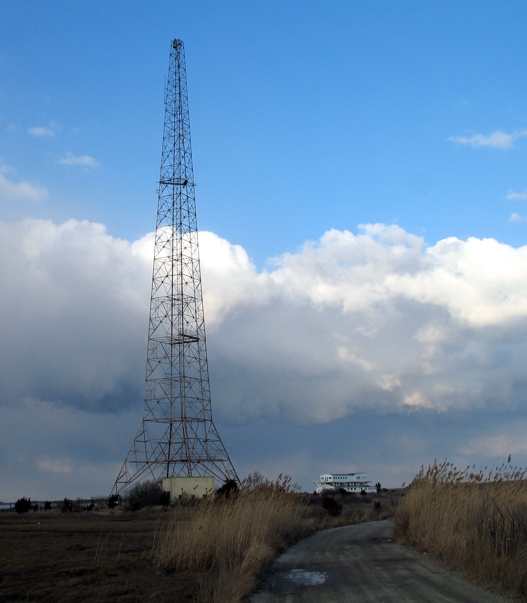 Mackay Tower and Art Barge in Napeague, New York. Photo by poster in February 2007.